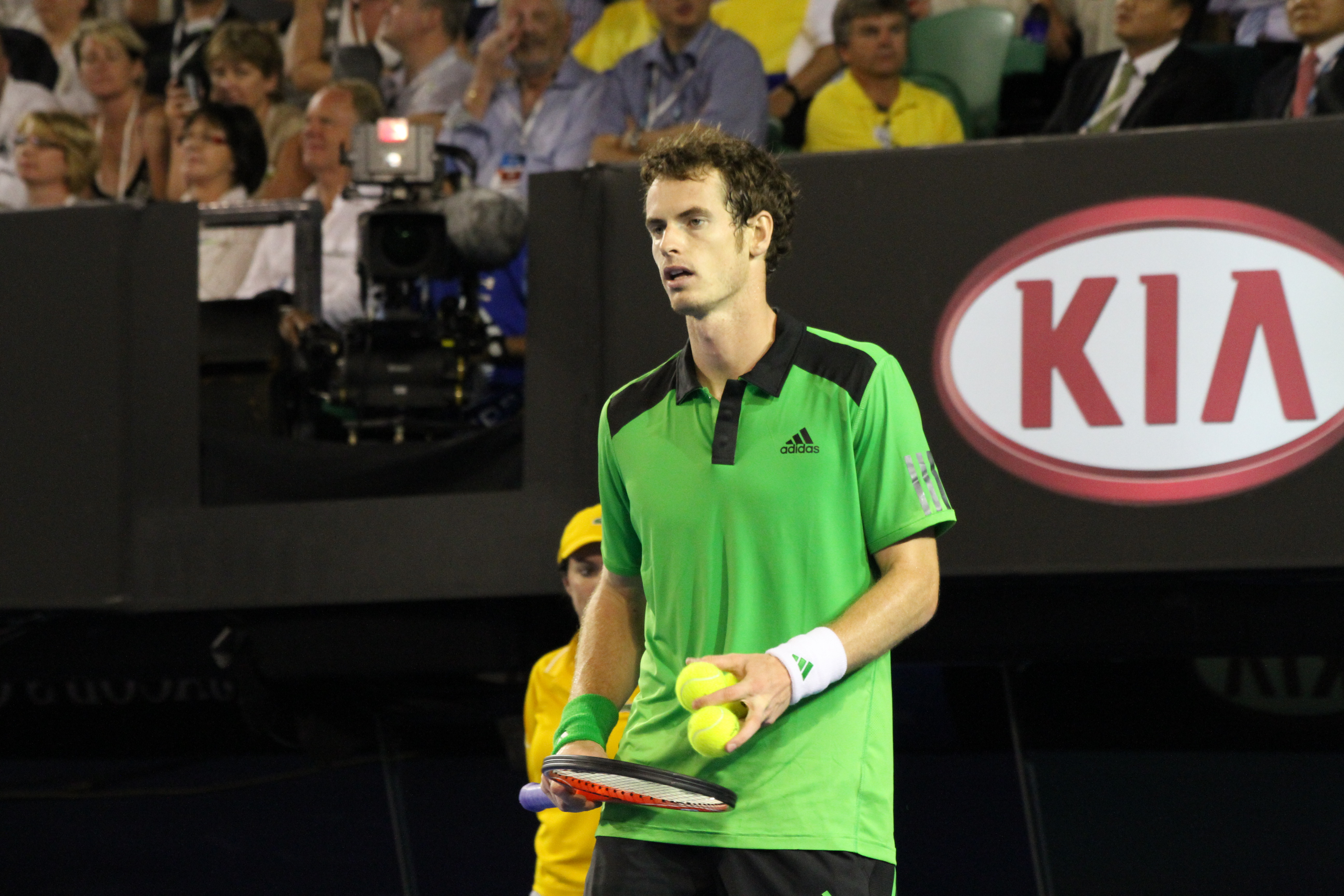 Murray collecting balls to serve to Novak Djokovic during the 2011 AO final